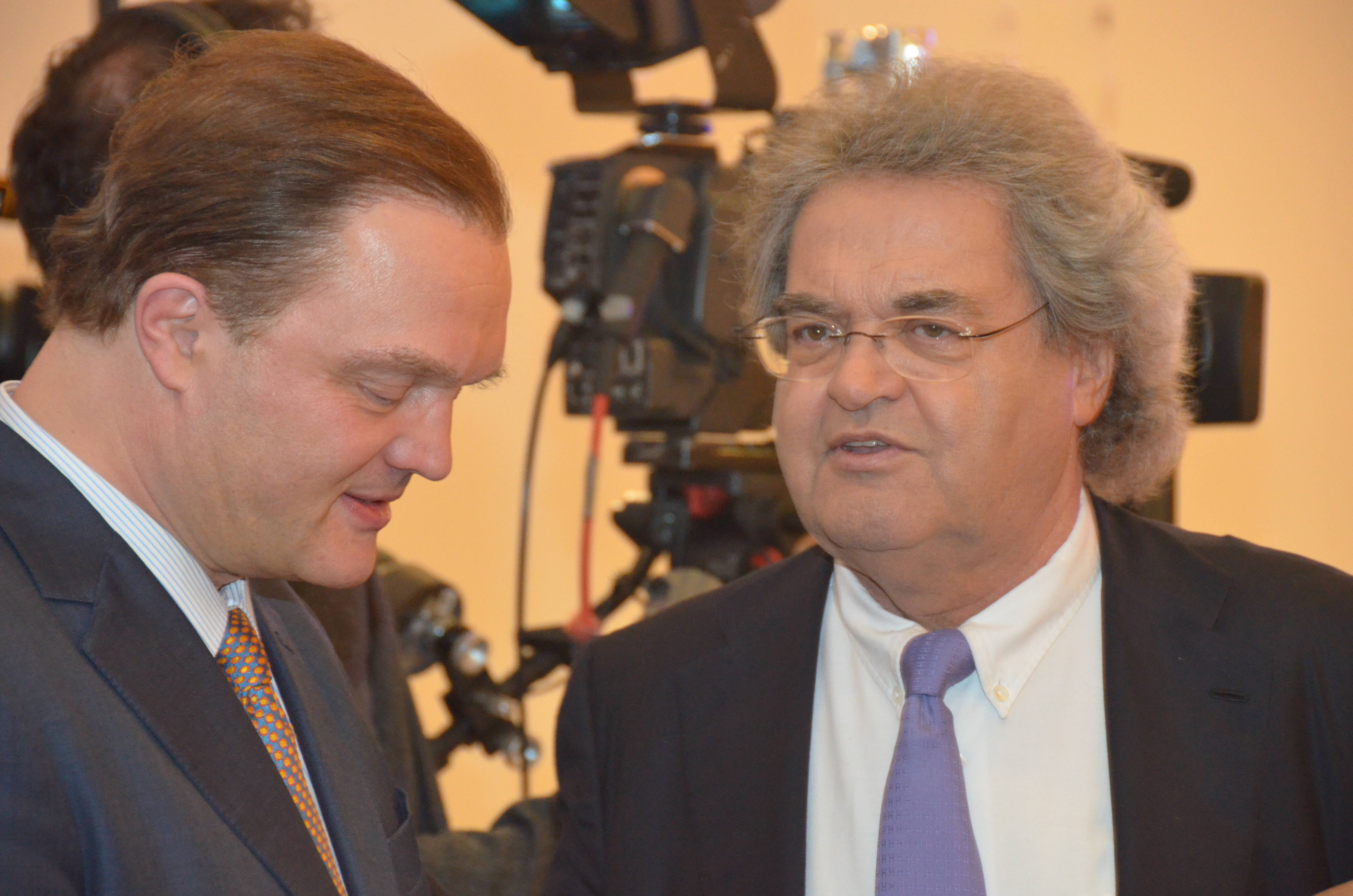 Wikipedia im Landtag – Niedersachsen 20. Januar 2013 in Hannover am WahlabendDieses Bild entstand während der Landtagswahl in Niedersachsen 2013 im Landtag Hannover. This work is free and may be used by anyone for any purpose. If you wish to use this content, you do not need to request permission as long as you follow any licensing requirements mentioned on this page.